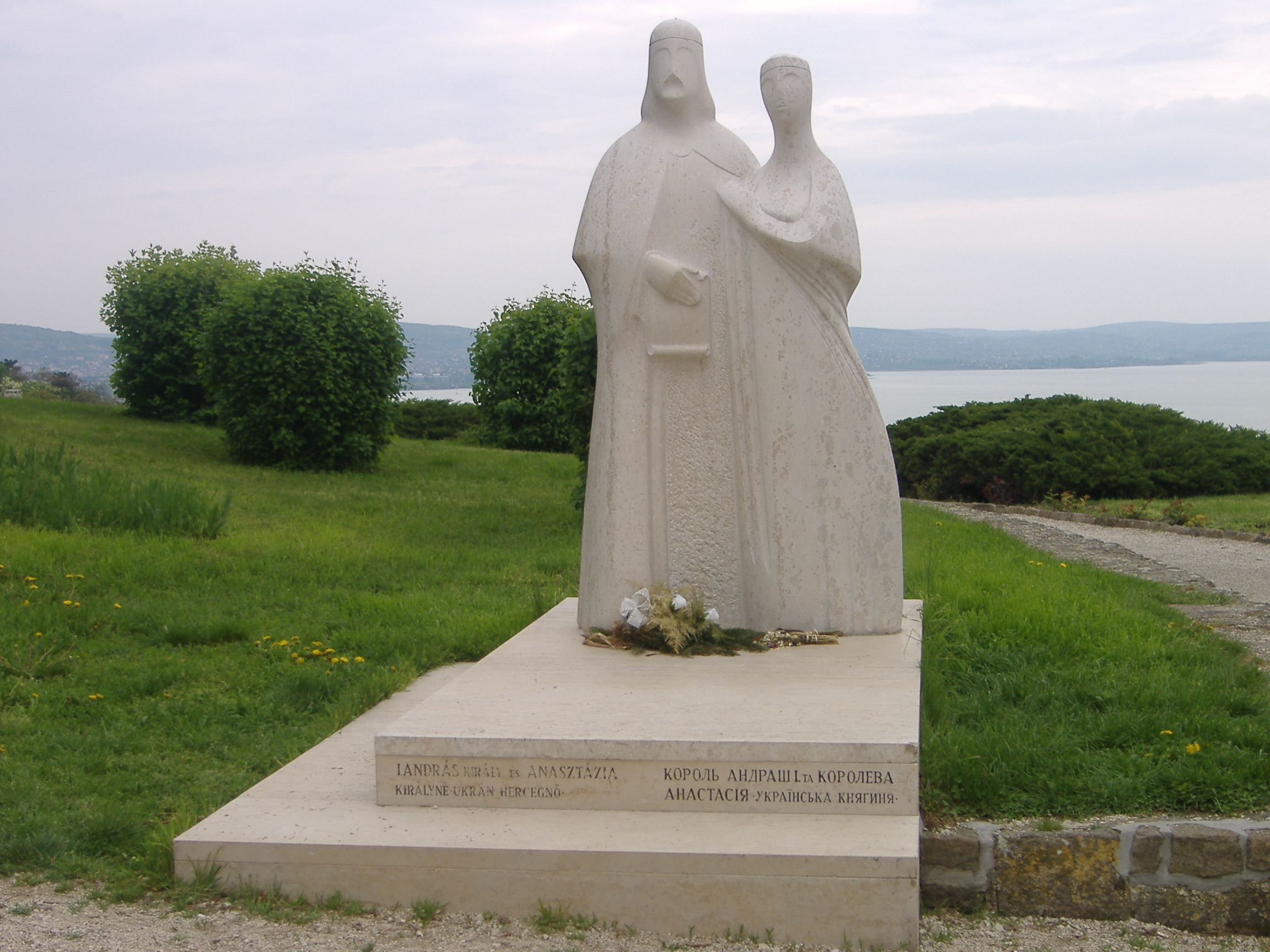 Statue of Andrew I of Hungary and his wife, Anastasia of Kiev in Tihany, Hungary.